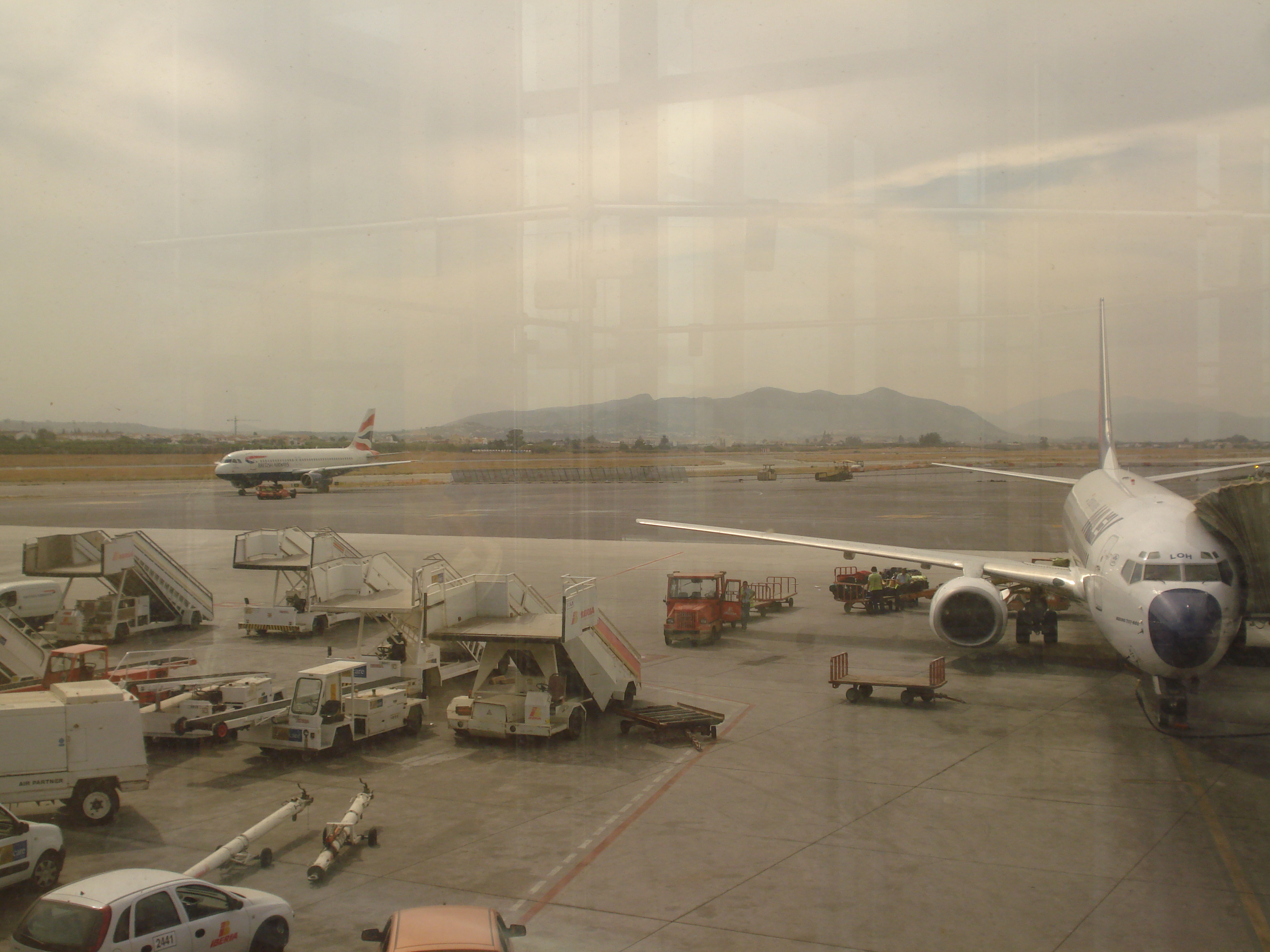 MALÉV aircraft (type: Boeing 737-800) parked at Málaga Airport, Spain